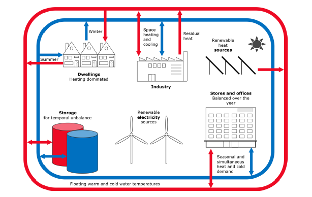 A circular representation of a 5GDHC system. The network is balanced over the year, with warm return flows from cooling supply and cold return flows from heating supply covering as much of the demand as possible. Any residual heat or cold demand is supplied using renewable sources.